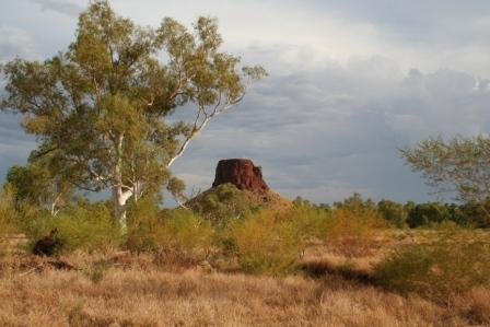 Photograph of Pannawonica Hill, Western Australia, taken by Mark Coghill in 2006